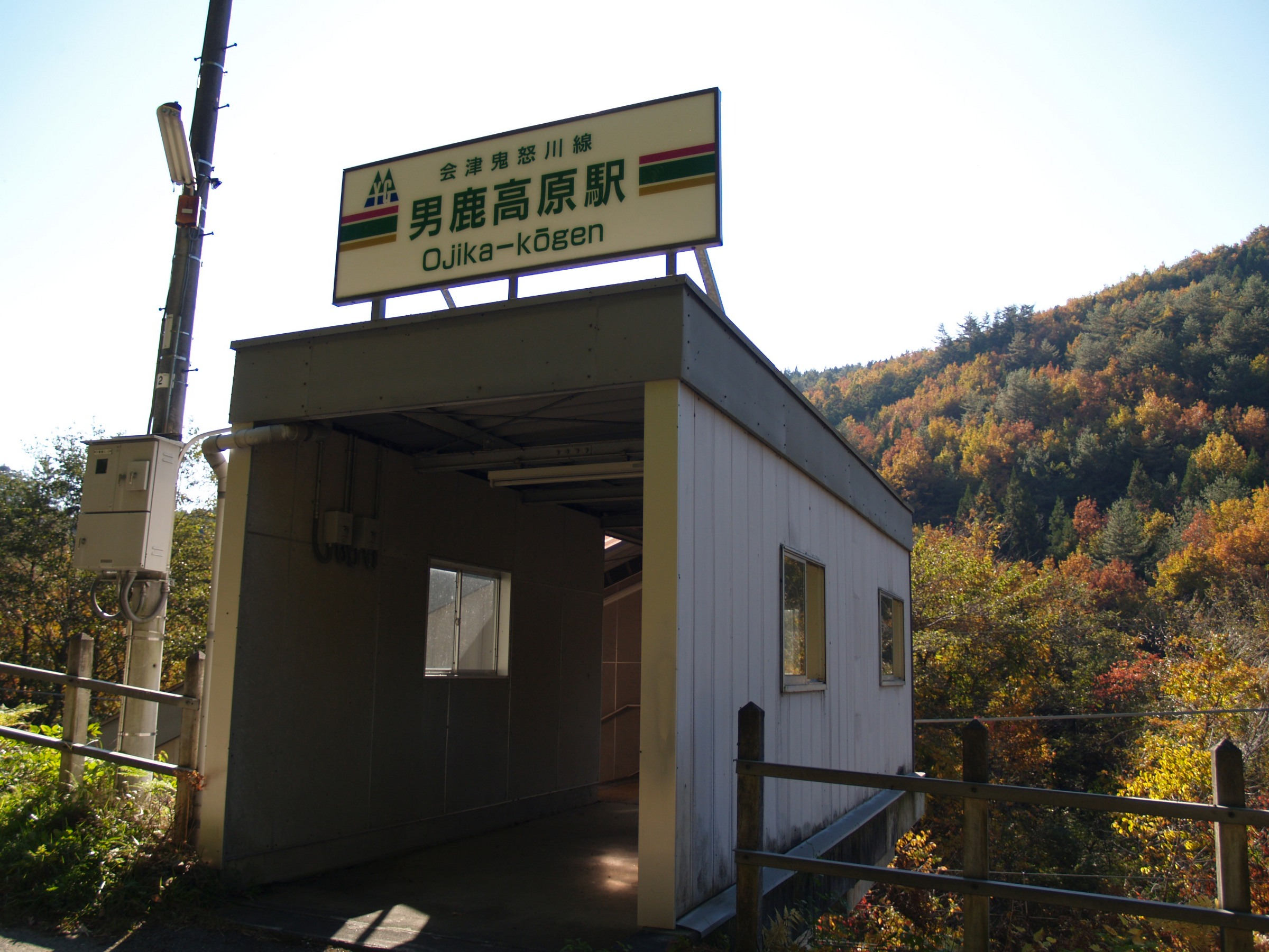 Entrance of Ojikakogen Station, Tochigi Pref., Japan